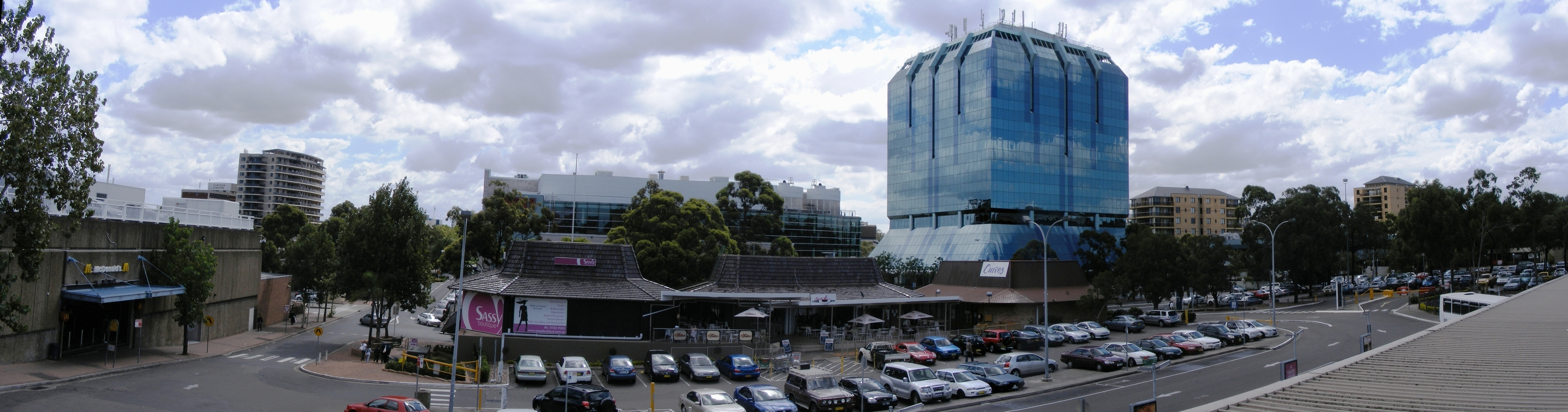 Bankstown panorama. The image is watermarked with a website for the stitching that I used to join these three pictures together. When I pay to use the program I guess this will stop happening with future pictures